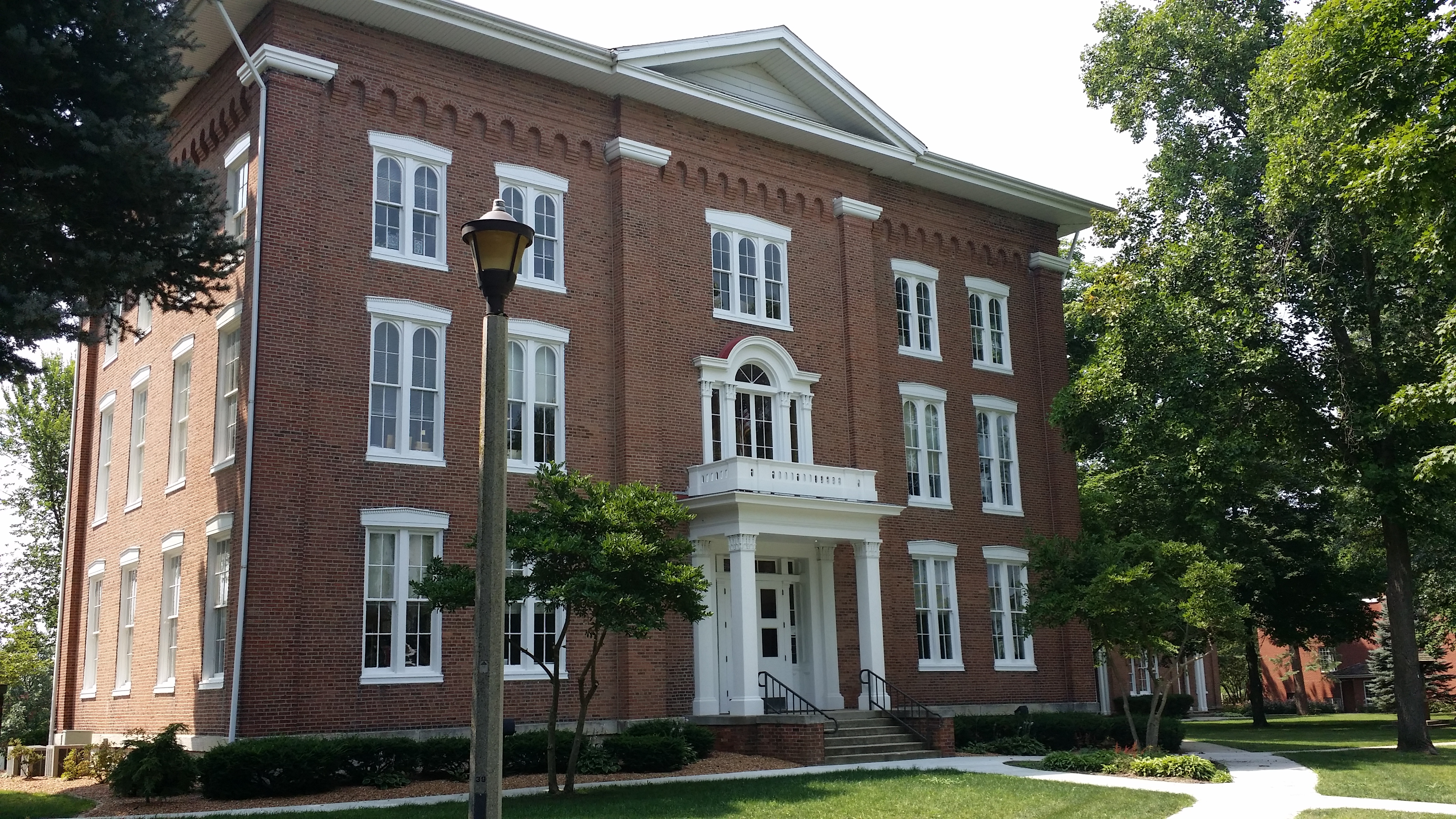 The administration building at Eureka College at 300 College Avenue, Eureka, Illinois. It has an Italianate design with Federal-influenced windows and Georgian main entrances. It was added to the NRHP in May, 1980, along with the College Chapel and shares the registration number 80001426